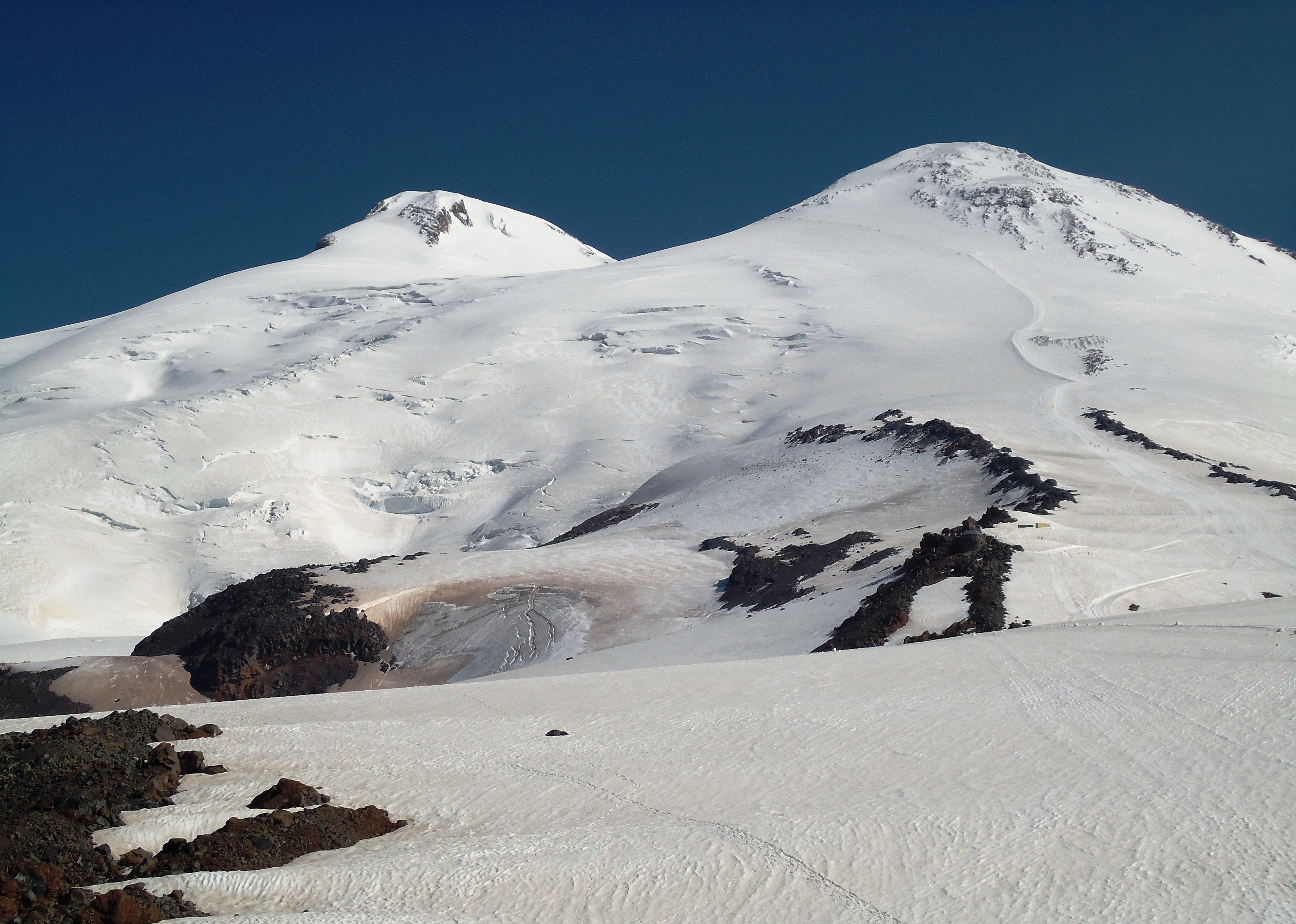 Mount Elbrus from the southeast. The normal rout on tops of Elbrus from Priyut 11 through Pastukhova Rocks and a saddle (see notes) is well visible This image is related to the protected area of Russia number 0700010